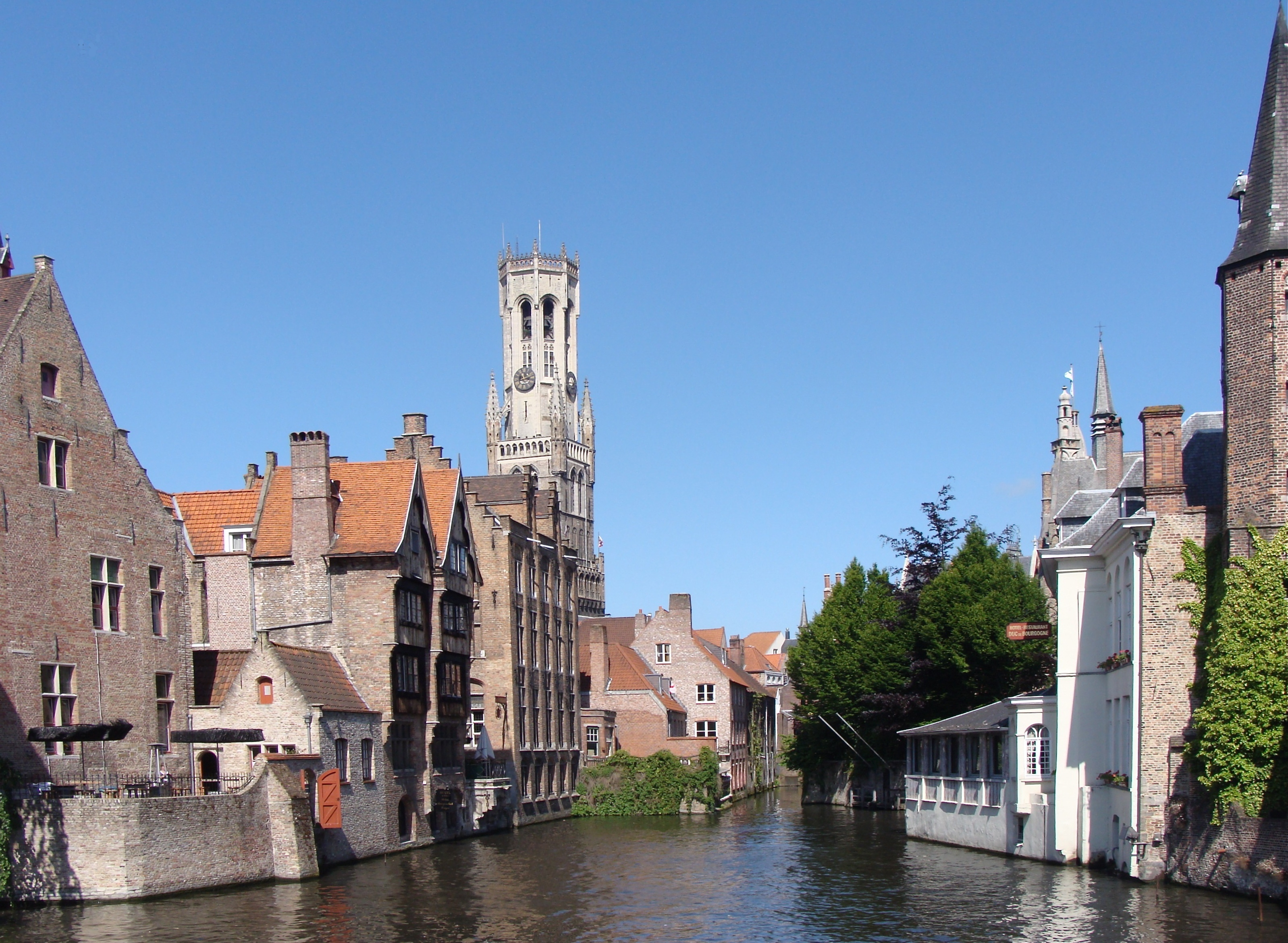 Bruges, Belgium, Rozenhoedkaai.